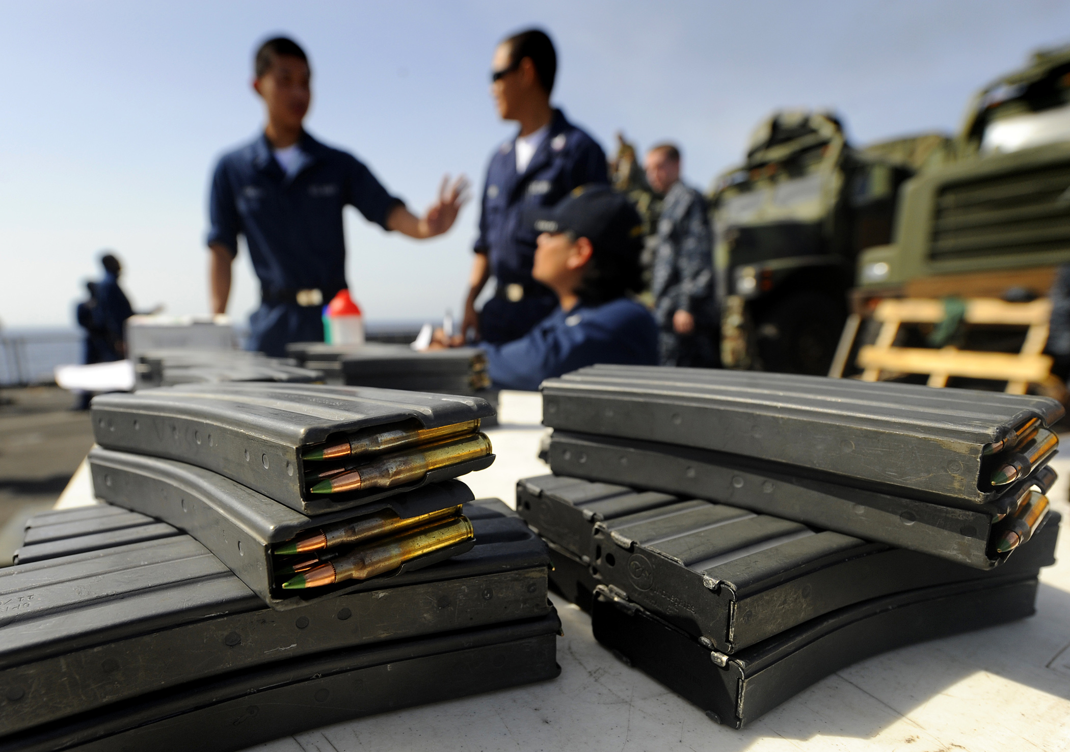 INDIAN OCEAN (Sept. 30, 2009) Loaded magazines with 5.56mm rounds are ready for the M-16/M-4 weapons qualifications on the flight deck of the amphibious dock landing ship USS Fort McHenry (LSD 43). Fort McHenry is deployed with the Bataan Amphibious Ready Group supporting maritime security operations in the U.S. 5th Fleet area of responsibility. (U.S. Navy photo by Mass Communication Specialist 2nd Class Kristopher Wilson/Released)